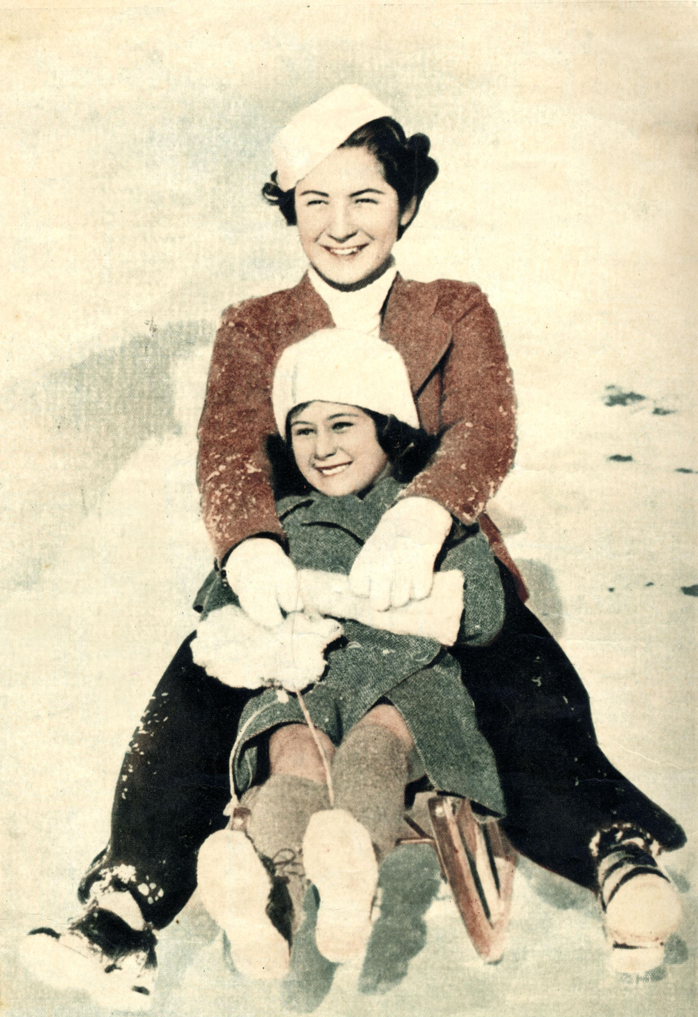 Princess Fathia (the little girl wearing a gray-green coat), sister of King Farouk I of Egypt, plays in the snow with her soon-to-be sister-in-law Safinaz Zulficar (the young woman wearing a red coat) during the Egyptian Royal Family's winter trip to Europe in 1937. Safinaz Zulficar would change her name and become Queen Farida upon her marriage to King Farouk I a few months later, on 20 January 1938. The photograph was published in Al-Musawwar magazine on 11 February 1939.